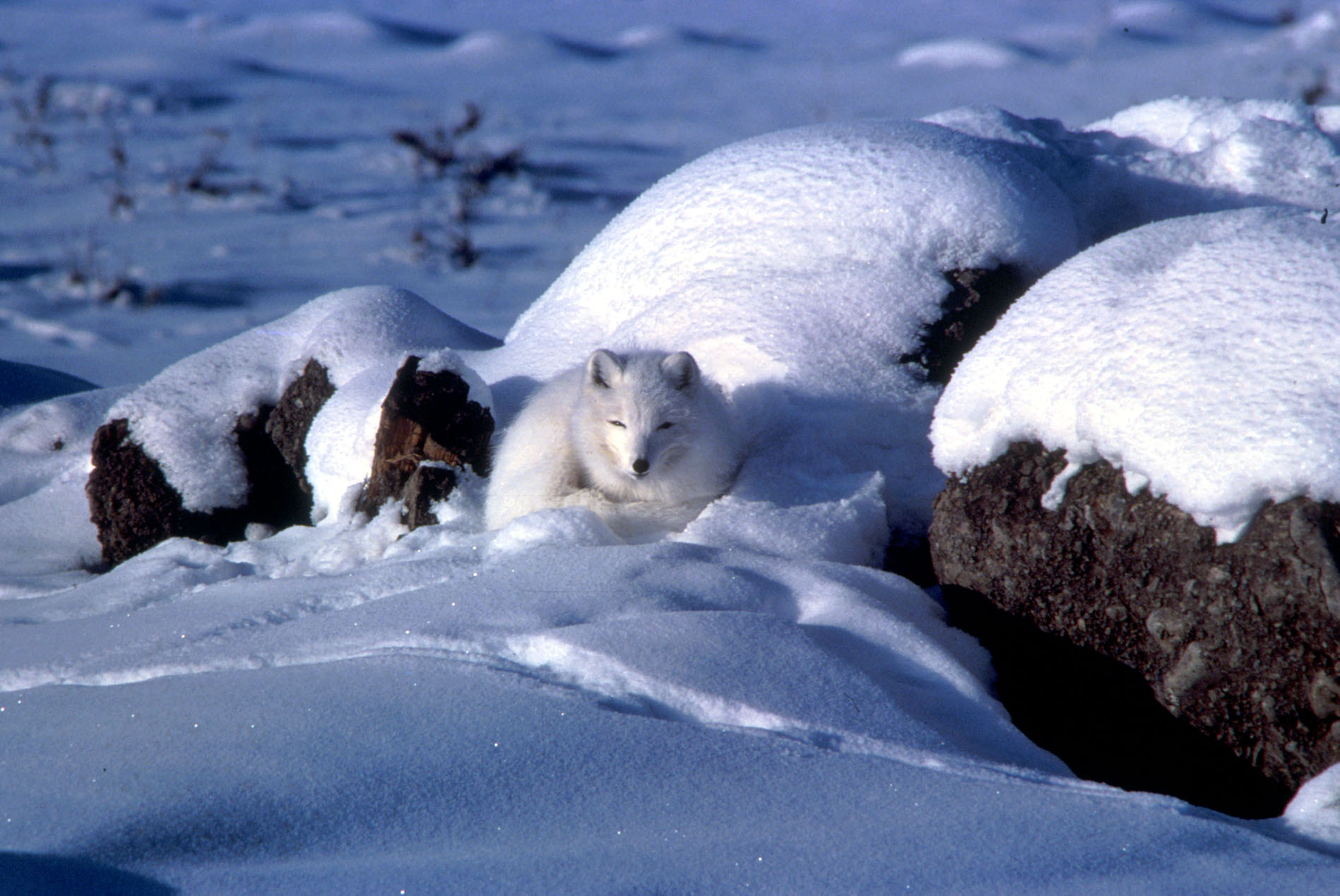 Arctic Fox (Alopex lagopus) in snow